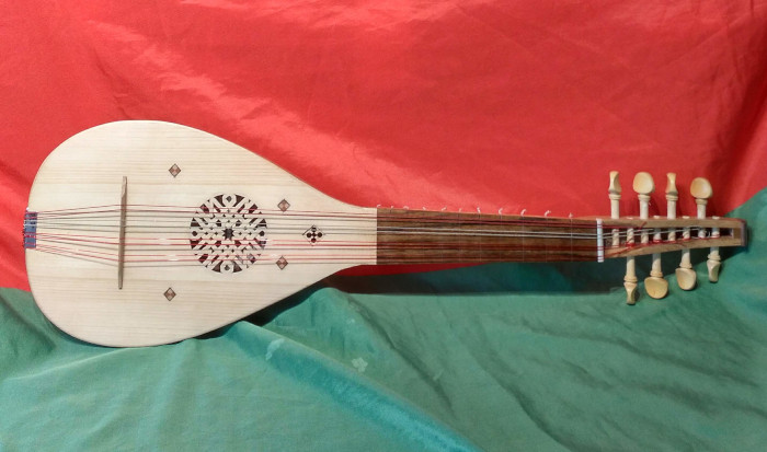 Medieval gittern built by Jo Dusepo.